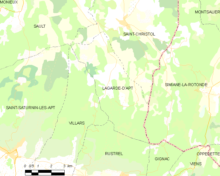 Map of French municipality Lagarde-d'Apt